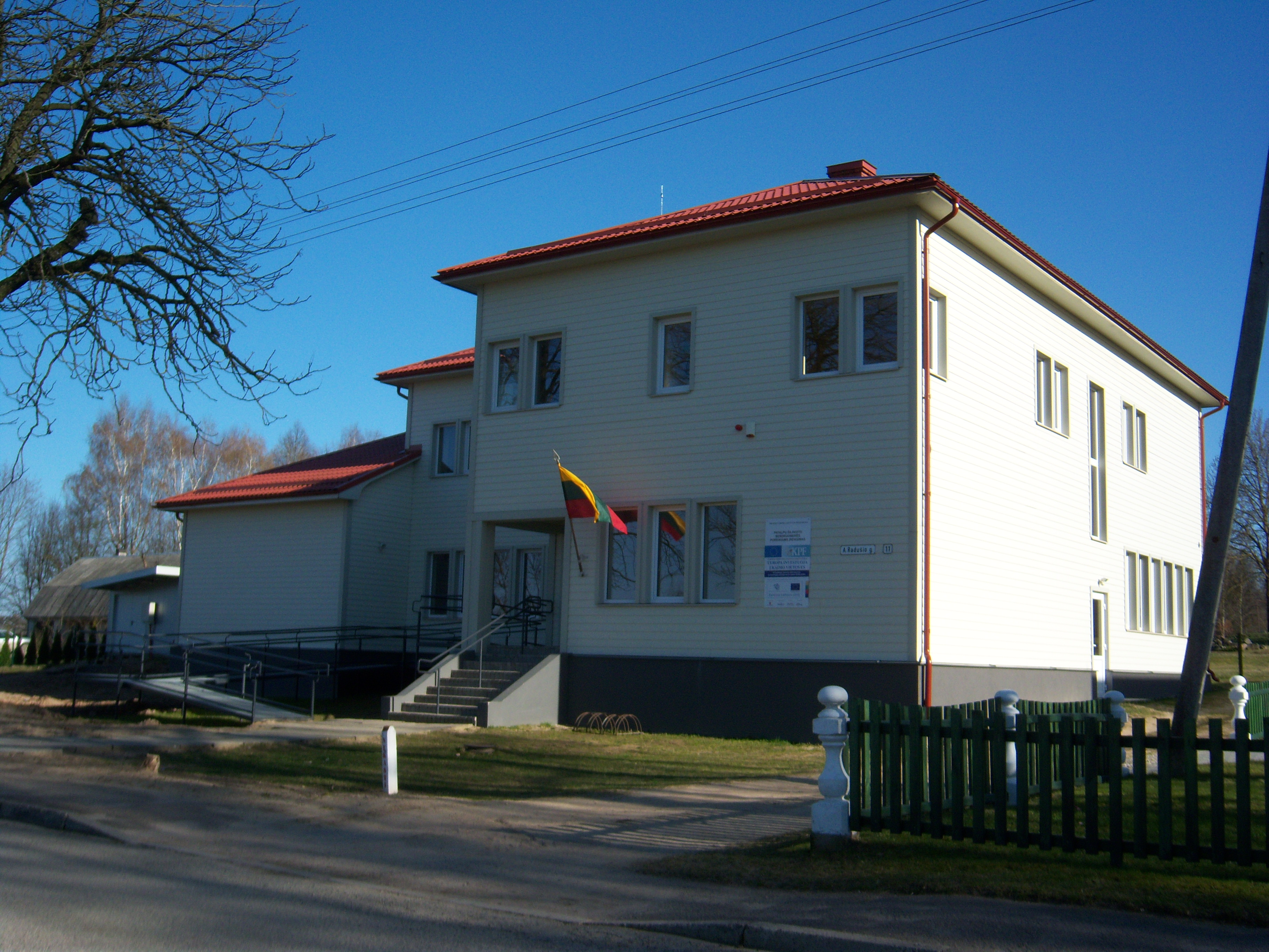 Eldership, Šilavotas, Lithuania